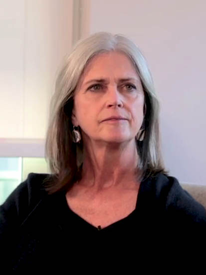 Architect Deborah Berke interviewed by Kurt Andersen for Cooper Hewitt Smithsonian Design Museum in 2018